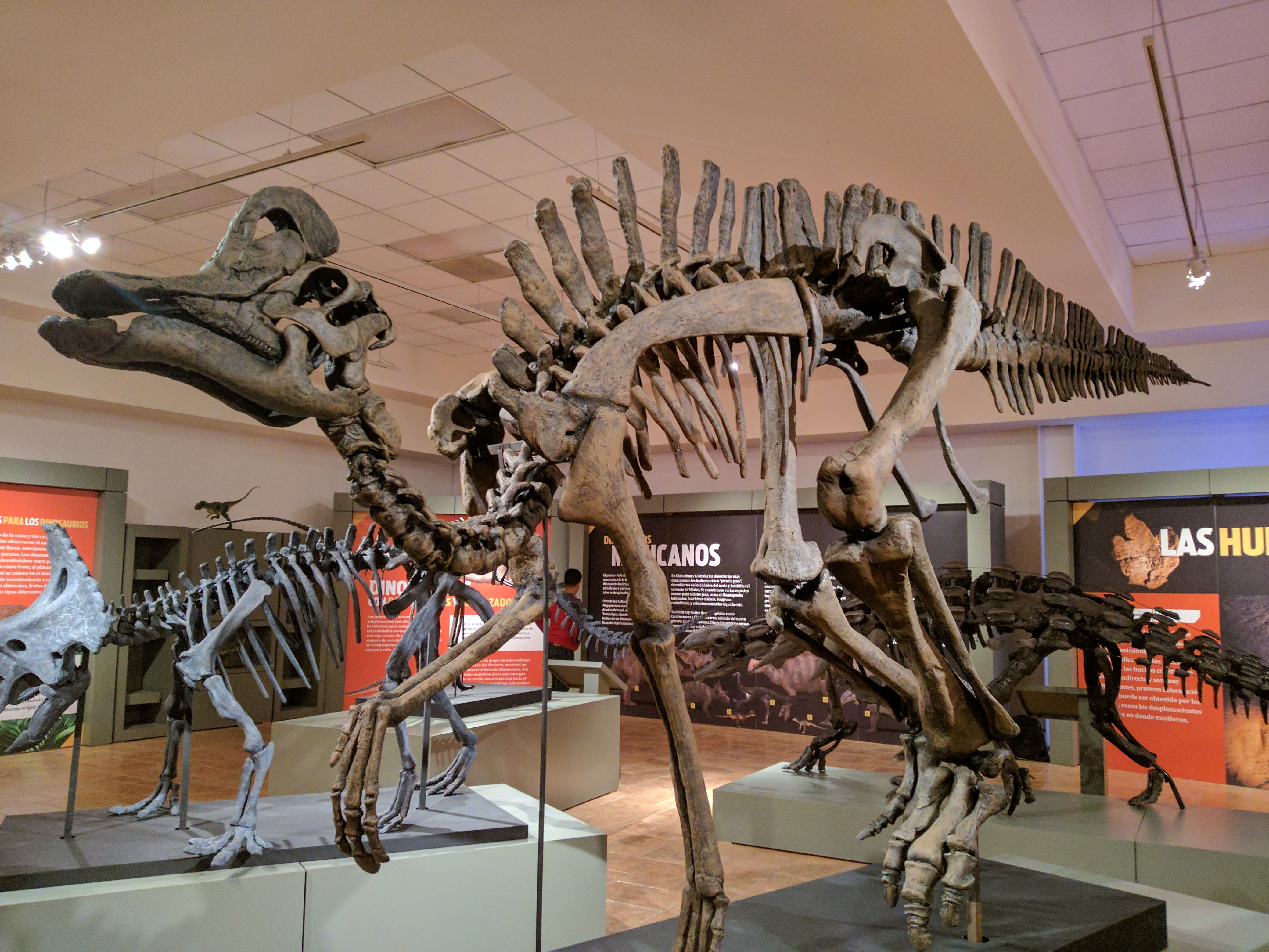 Velafrons coahuilensis" skeletan mount at the temporary exhibition "Dinosaurios Ahora" in February 2016 at the Museum of the Desert, Coahuila, Mexico.